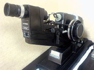 Photo of a lensmeter for the Wikipedia page of the same name.